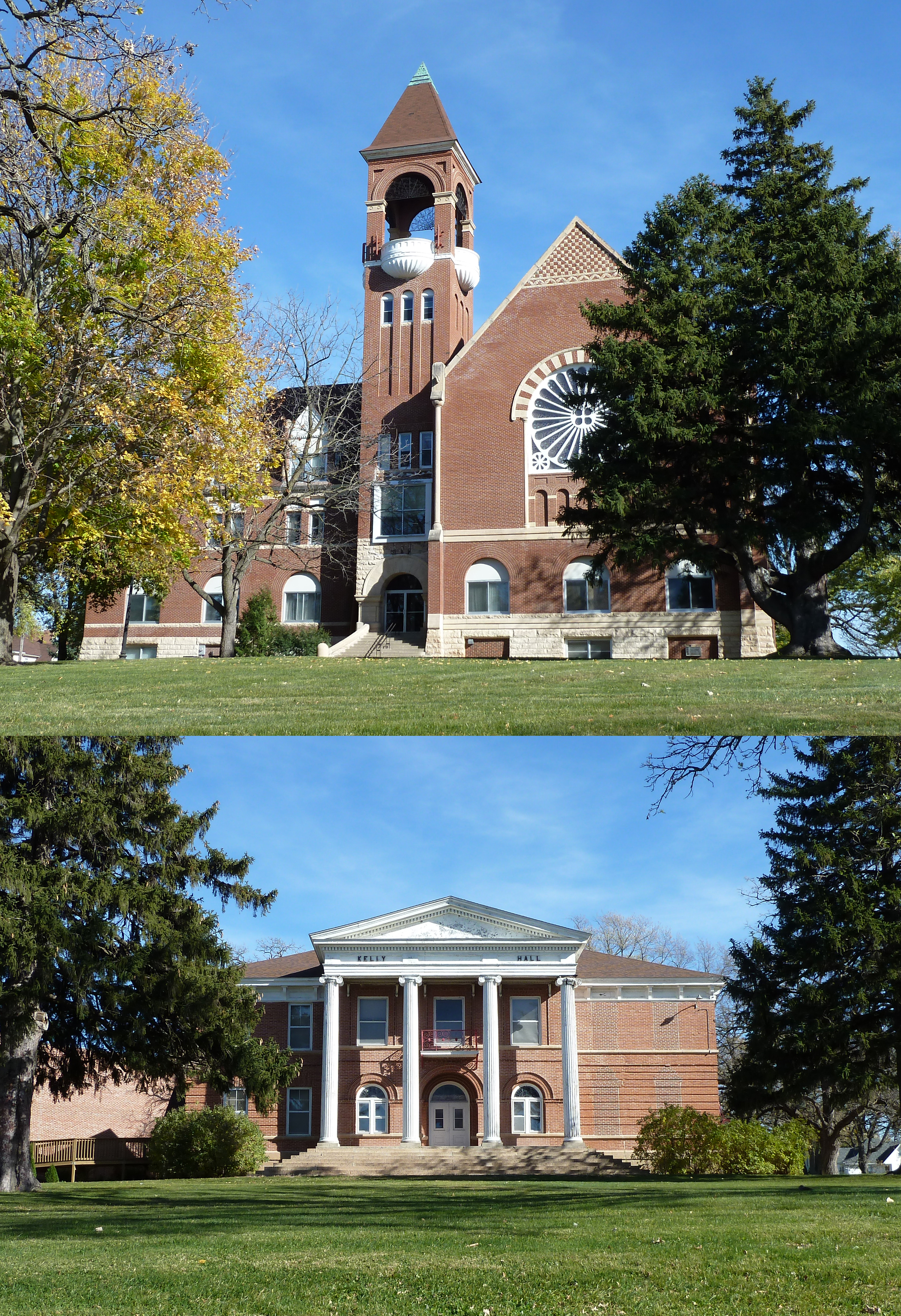 Pillsbury Academy Campus Historic District, consisting of the oldest structures of the defunct Pillsbury Baptist Bible College (top: Old Main, bottom: Kelly Hall), Owatonna, Minnesota, USA.